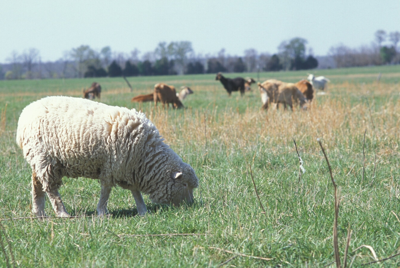 An image showing Ovis aries in field.